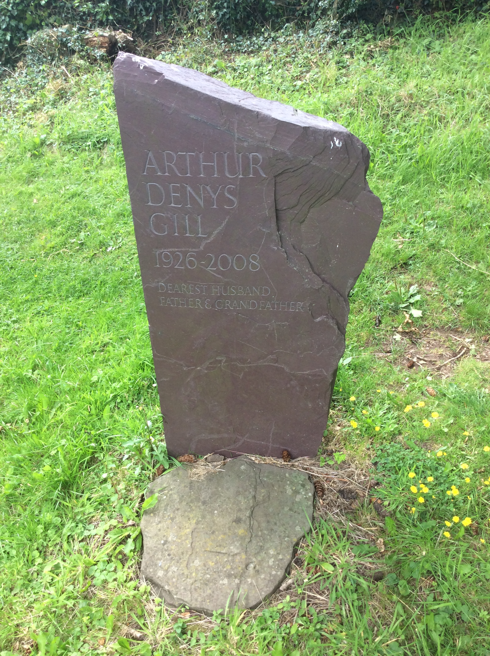 Gravestone of Arthur Gill, racing driver and farmer, Church of St Martin, Cwmyoy